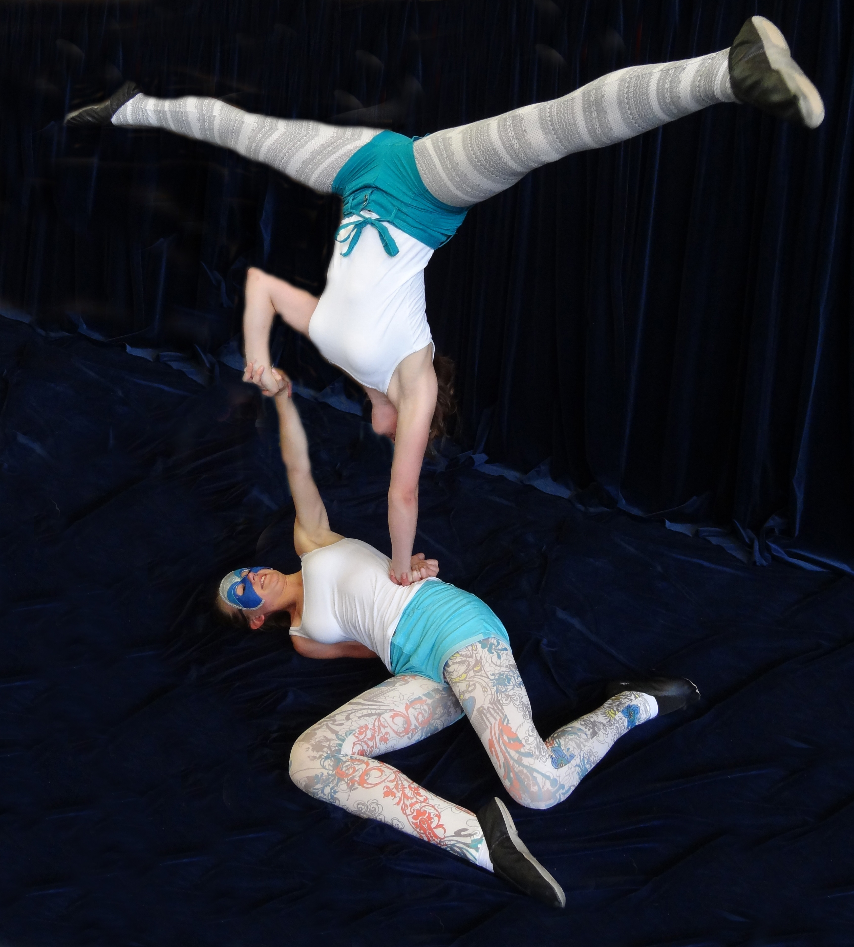 Skillzgroup TwoB from Holland